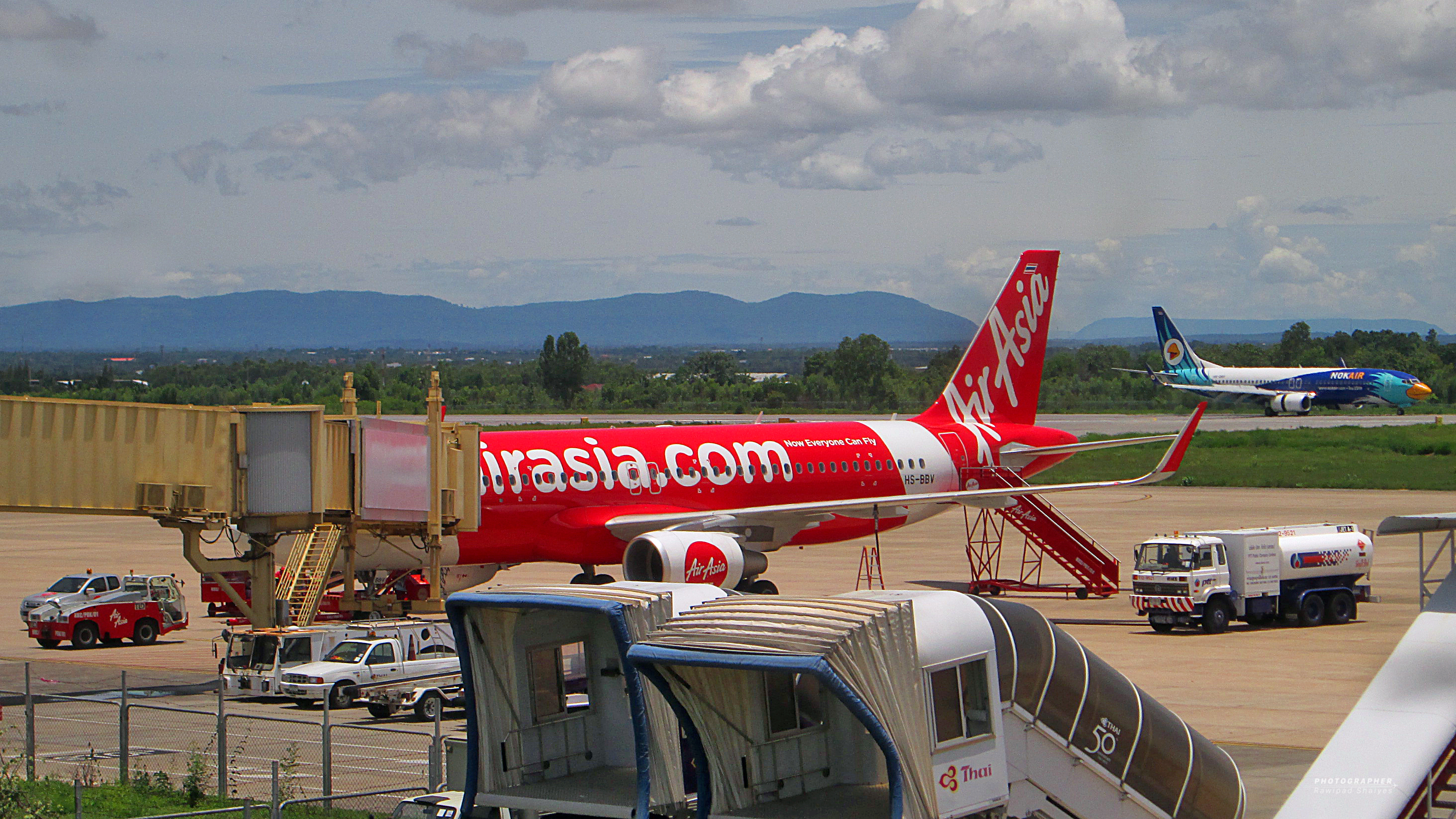 Thai AirAsia Aircraft: Airbus A320-216(WL) Registration: HS-BBV Construction Number (MSN): 7057 Nok Air Aircraft: Boeing 737-8FZ(WL) Registration: HS-DBP Aircraft Name: "Nok Petchnaamngern / นกเพชรแกมน้ำเงิน" Construction Number (MSN): 39336 ============= Location: Khon Kaen Airport (KKC / VTUK) Date:July 20, 2016.